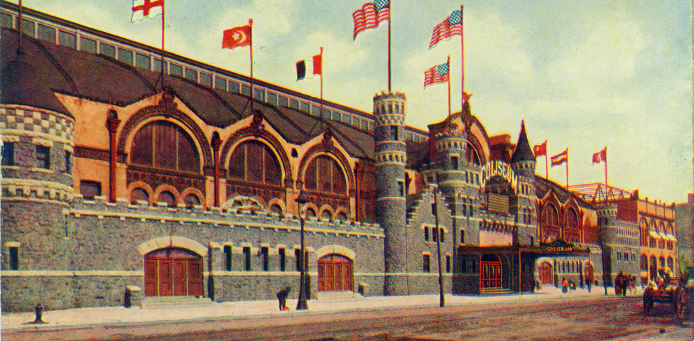 The Coliseum in Chicago on a c. 1910 postcard. The walls are from the old Libby Prison in Richmond, VA. No copyright notice on front or back